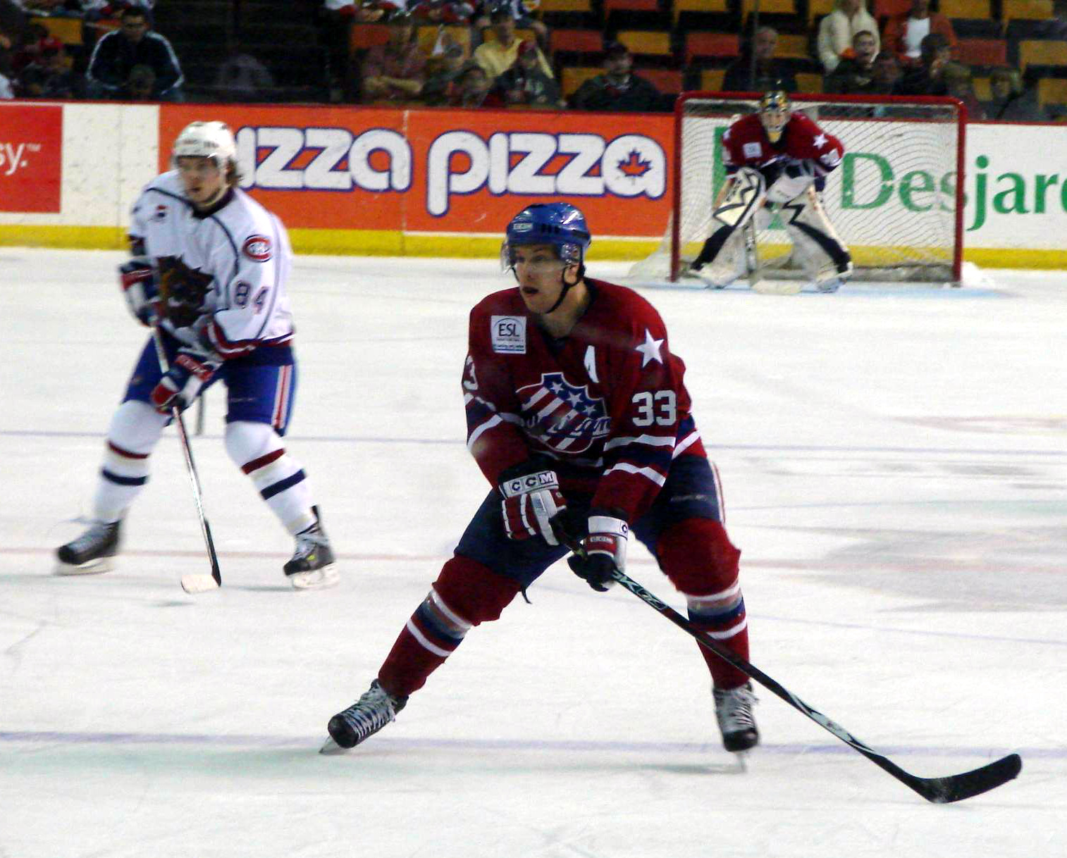 Janis Sprukts #33,Latvian ice hockey player of Rochester Americans (AHL) in game against Hamilton Bulldogs